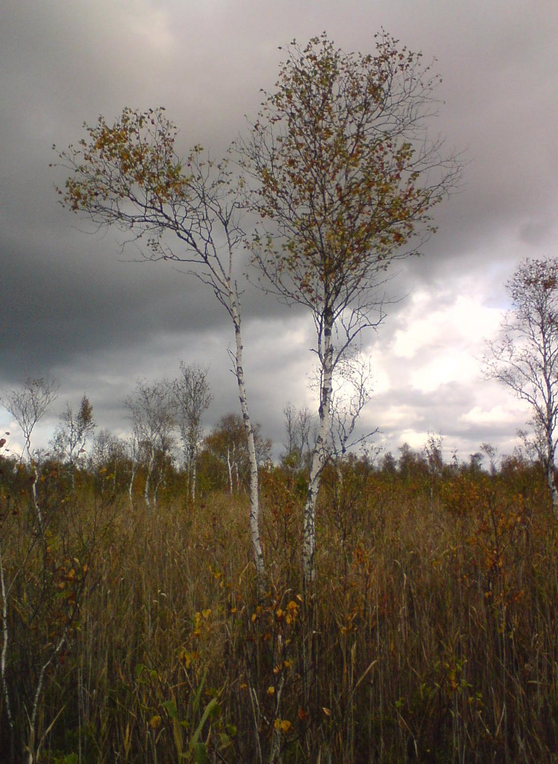 A birch tree (Betula) in Avaste Nature Reserve, Estonia